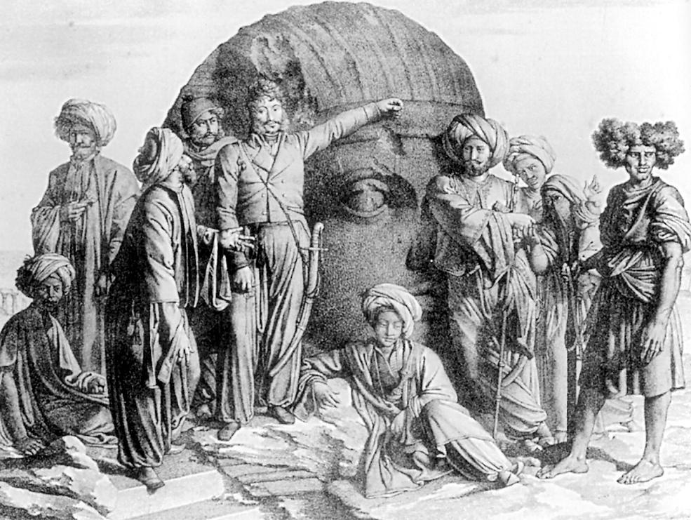 The Italian diplomat and collector Bernardino Drovetti in 1819 with some of his acquaintances in Upper Egypt. Drovetti is measuring an ancient Egyptian colossal head with a plumb line. Lithography by Godefroy Engelmann (possibly after Granger?)